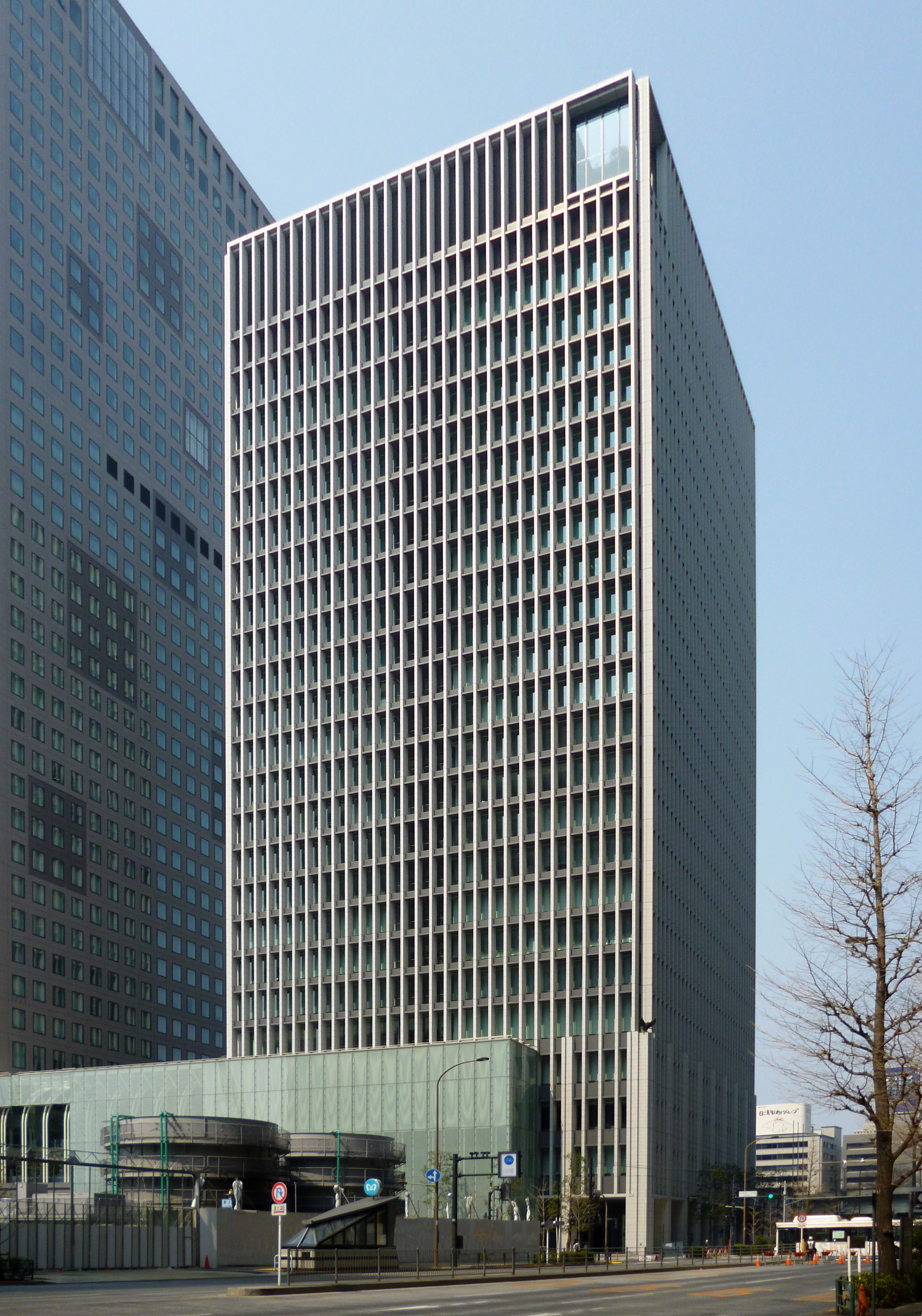 Keidanren Kaikan, A headquarters of Japan Business Federation, in Chiyoda, Tokyo, Japan.